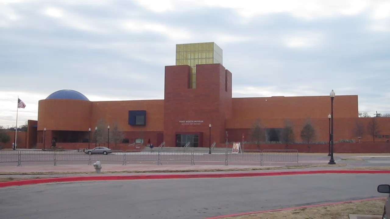 I took photo with Canon camera.